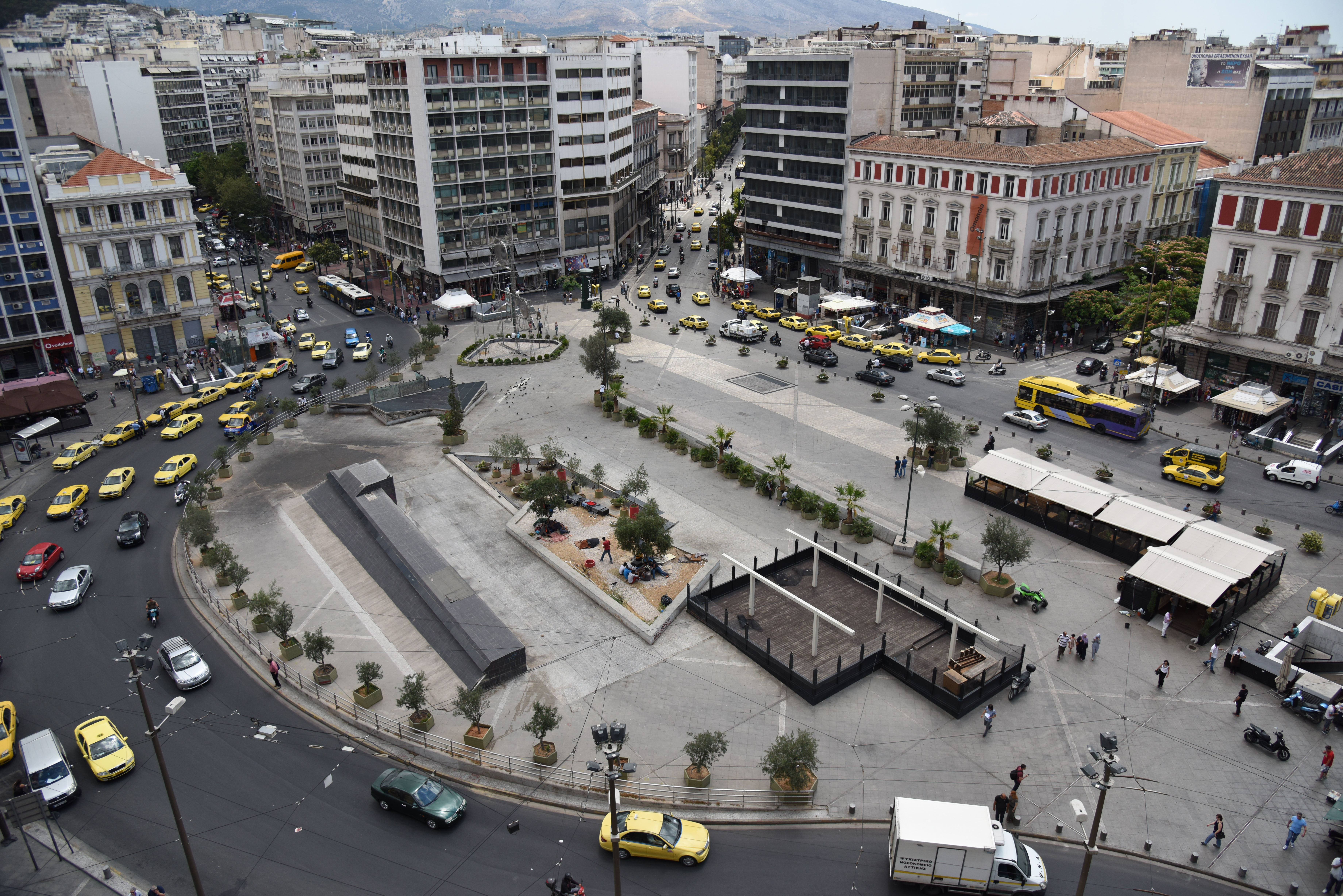 Πλατεία Ομόνοια